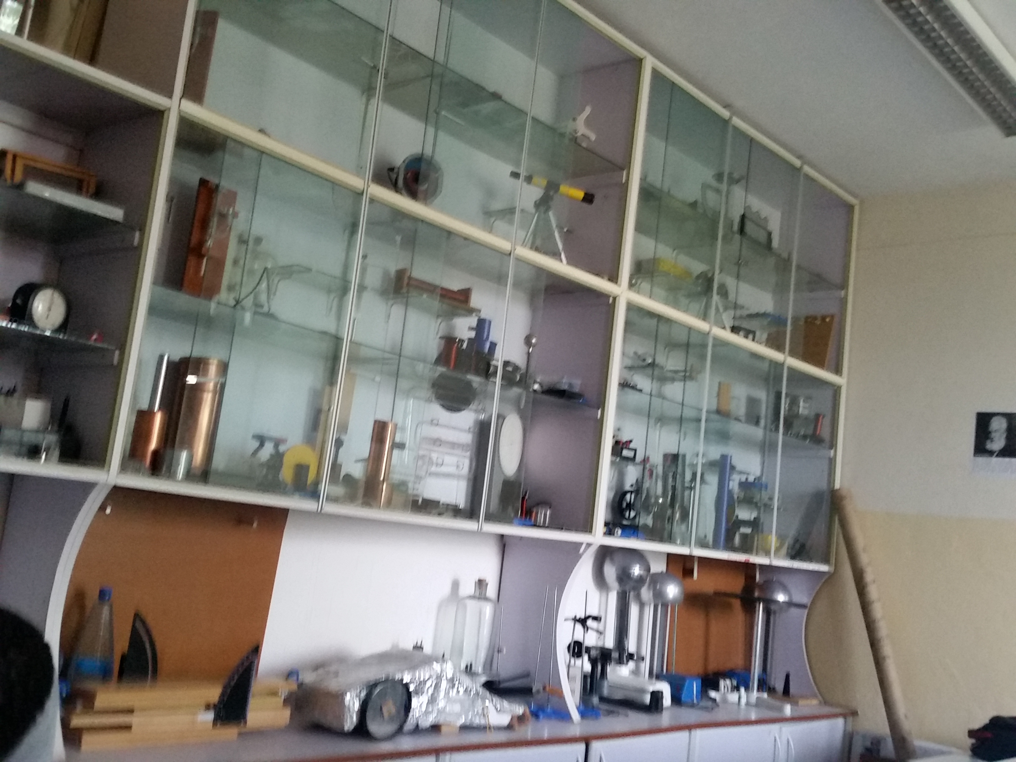 Science Lab at Ethioparents High School, Addis Ababa